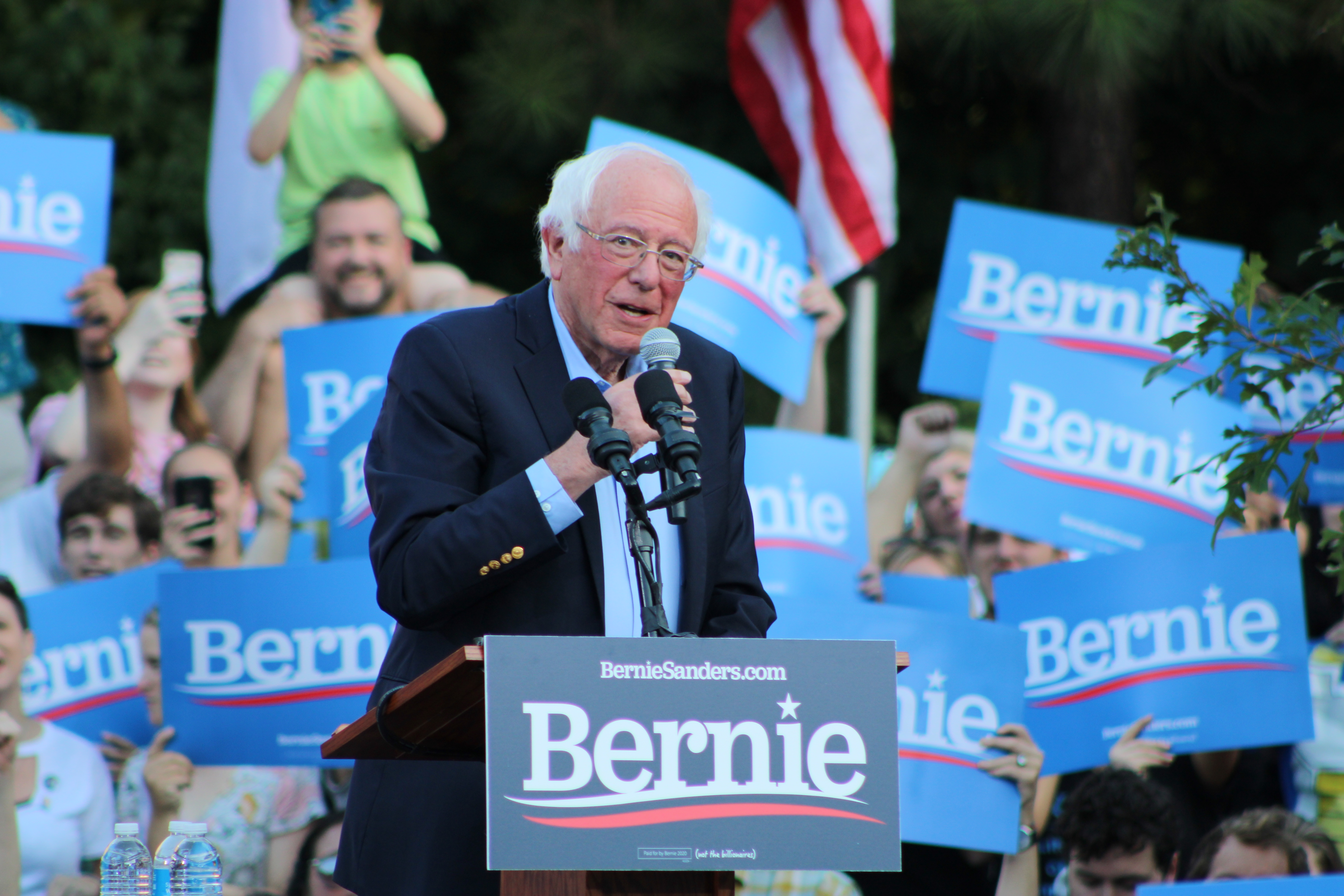 Senator Bernie Sanders' speaks at UNC-Chapel Hill's Bell Tower Amphitheater on September 19, 2019